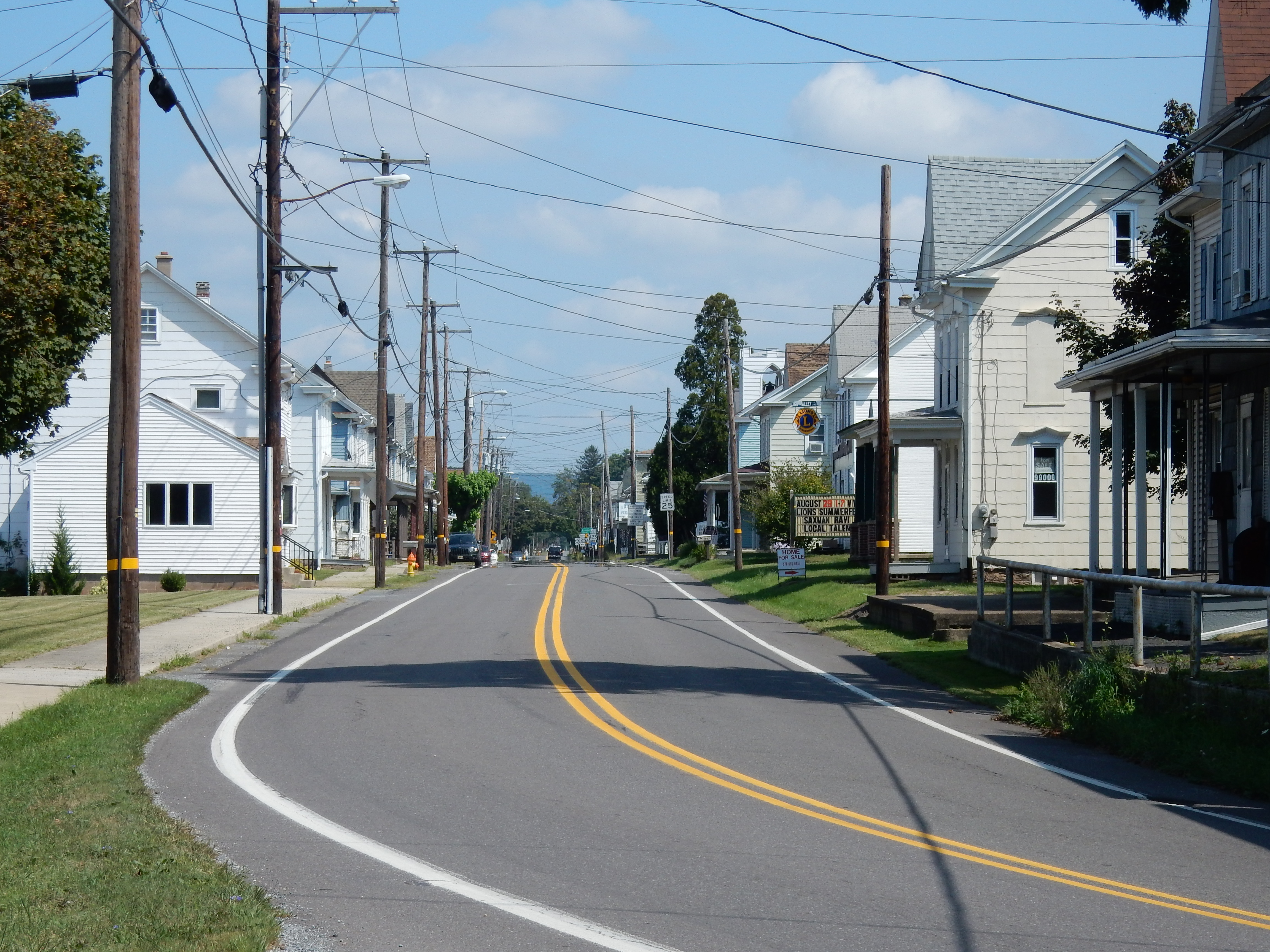 East Main St. (Pennsylvania Route 25), Hegins, Pennsylvania. Looking east.